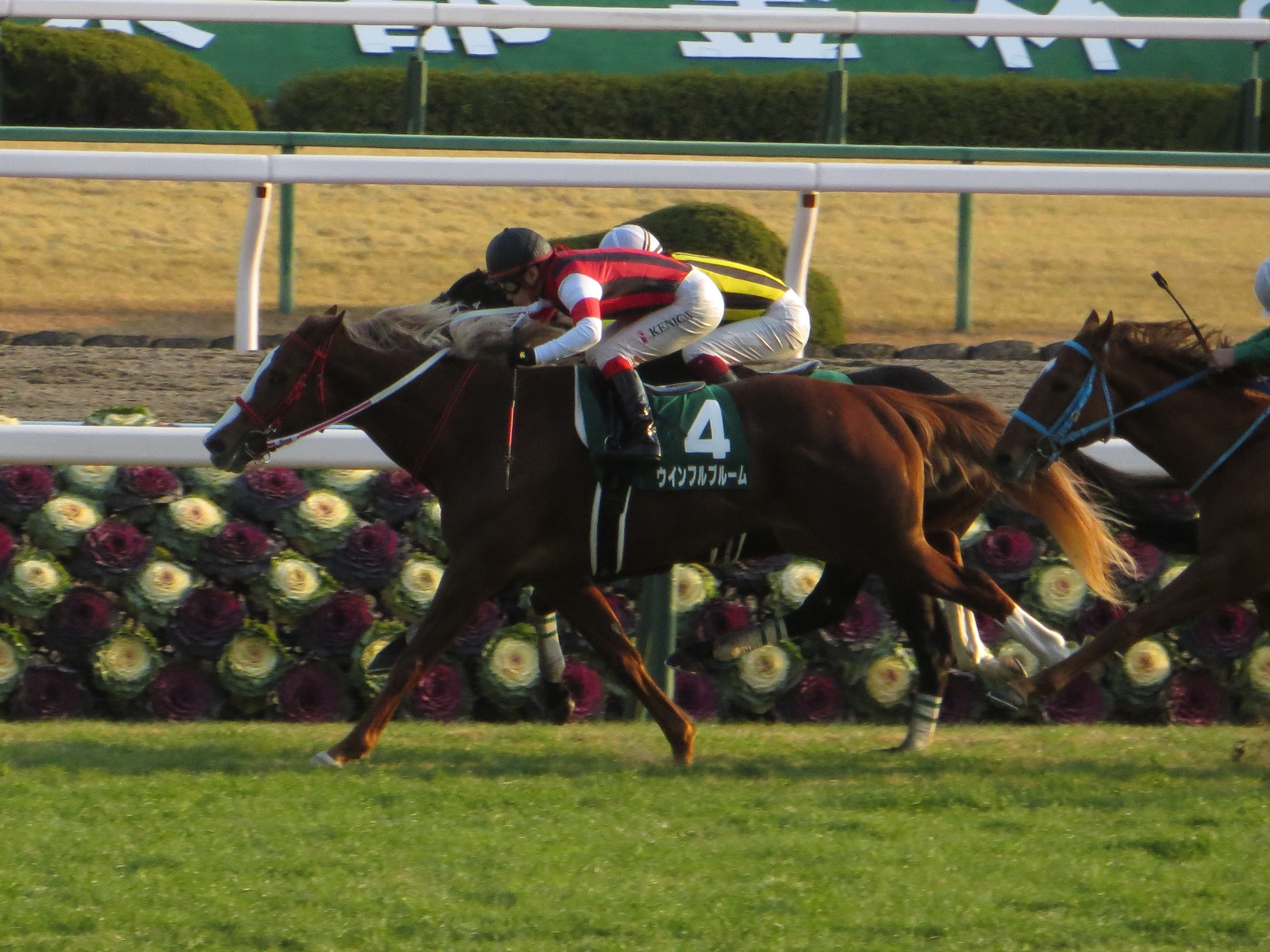 Win Full Bloom (Racehorse of Japan).